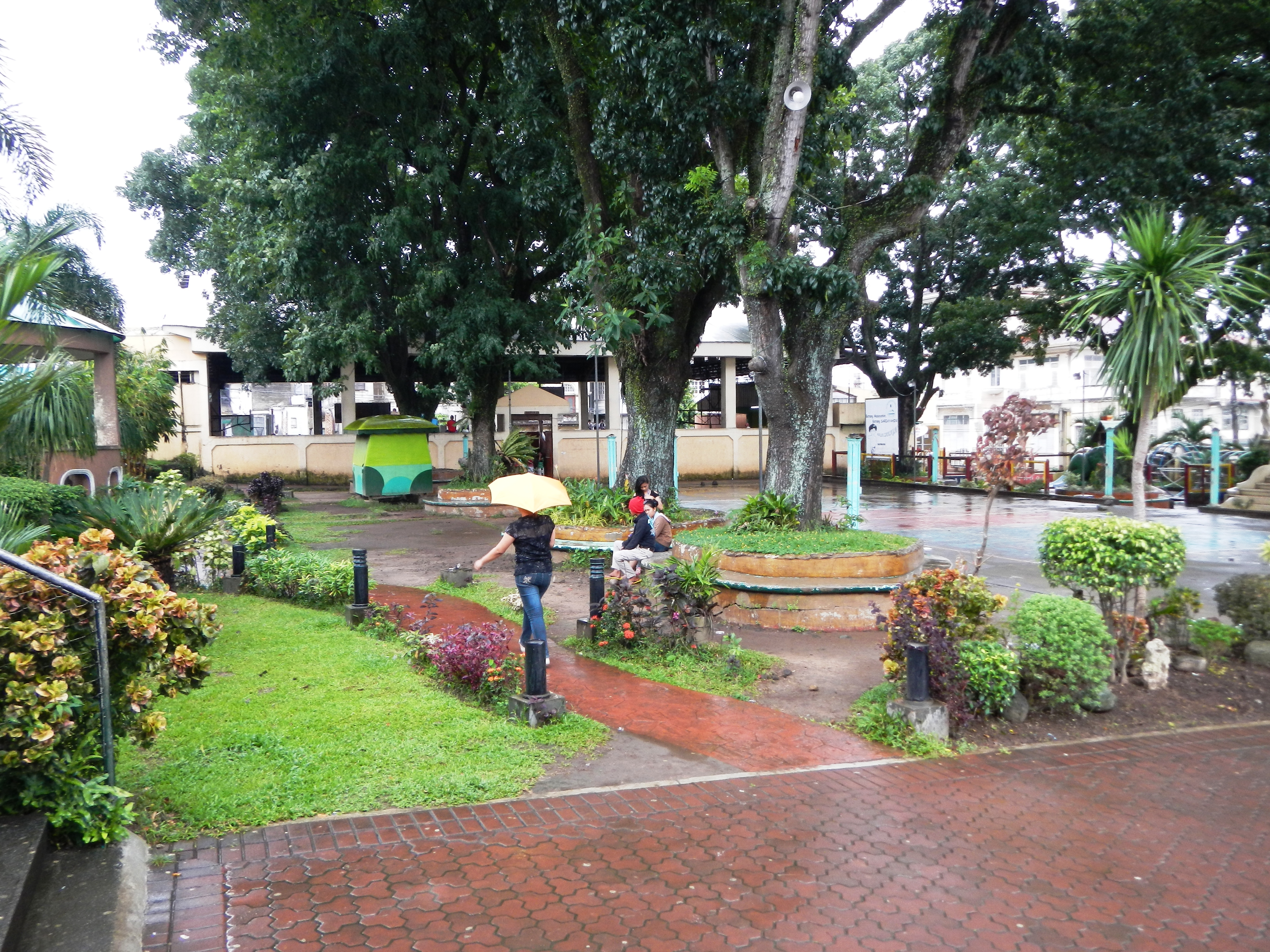 Upload Wizard -- (general description of landmarks, town, church) - of - Sariaya, Quezon [1] ([2] Region: CALABARZON (Region IV-A) 2nd district of Quezon Founded: October 4, 1599 Castanas; Barangays: 43 Area 239.8 km2 (92.6 sq mi) a first class municipality in the province of Quezon, Philippines famous for beaches, resorts, heritage houses, and hiking activities Coordinates: 13°56'31"N 121°30'9"E);[3]; Sariaya Old Municipio;[4] [5] [6] - [7] (Sariaya Town Hall , Plaza, Town Center Complex - with - the Town Park with Jose Rizal Monument with a feather plume and the Glorita unveiled on December 30, 1924, with elevated structure looks like a bandstand with 8 Grecian maiden dressed in Filipiniana each statue holds a torch having had customized flame-shaped glass bulbs fitted with electrical wirings - List of Cultural Properties of the Philippines[8] - Ancestral houses of the Philippines[9], CALABARZON [10] region.